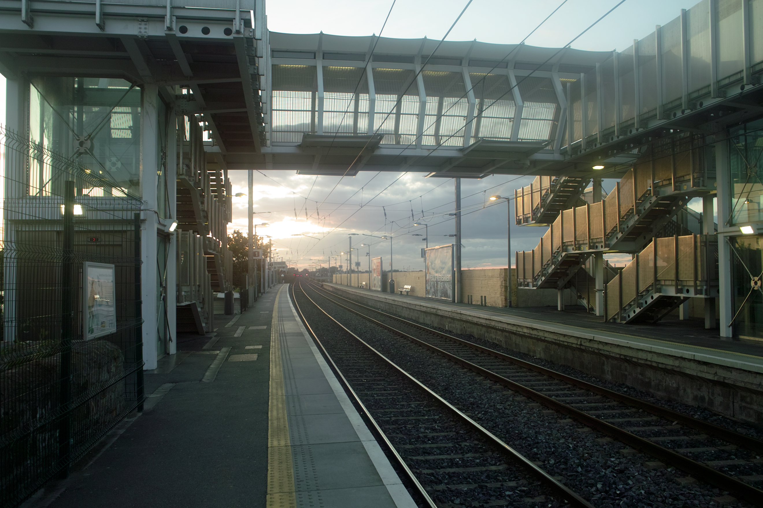 Booterstown DART station, north part